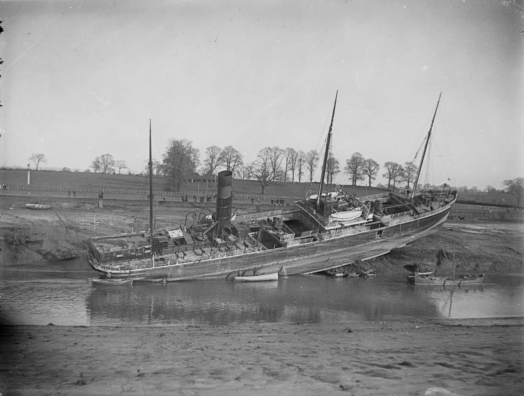 To matters maritime to begin the week, a stranded ship on a shore with supporting craft around it. With thanks to [/photos/129555378@N07/ sharon.corbet], [/photos/20727502@N00/ guliolopez], [/photos/swordscookie/ swordscookie], [/photos/16693700@N03/ Derek], [/photos/patvic67/ patrick.vickers1] and [/photos/66311327@N05/ B-59], it seems that this image (probably a later copy by Poole) shows the 1896 grounding of the SS Dunbrody on the River Avon in England. The ship was refloated during Christmas 1896, and continued to service the Waterford Steamship Company's route from Bristol to Waterford into the early 20th century. If we can refine the location a little, we'd love to pin a location for this on the map.... Photographer: A.H. Poole Collection:Poole Photographic Studio, Waterford Date: ca. 1901-1954 (likely a copy of an 1896 original) NLI Ref: POOLEWP 0781 You can also view this image, and many thousands of others, on the NLI’s catalogue at